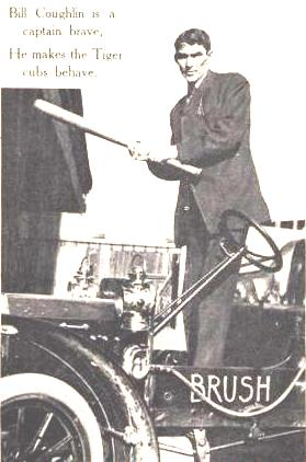 Postcard of Bill Coughlin, 1907, Captain of the Detroit Tigers baseball team